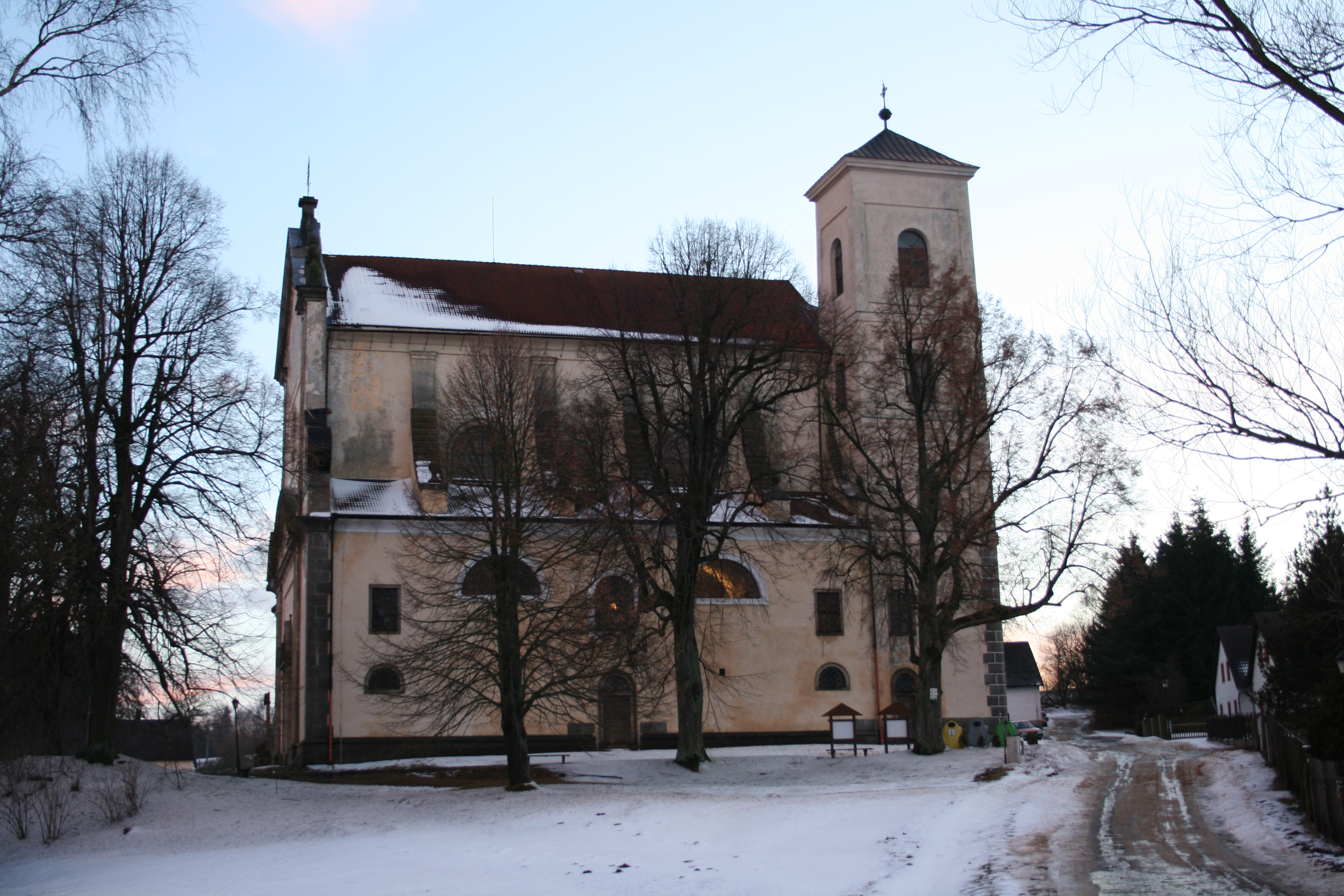 Klášter, part of Nová Bystřice, Jindřichův Hradec district, Czech Republic.